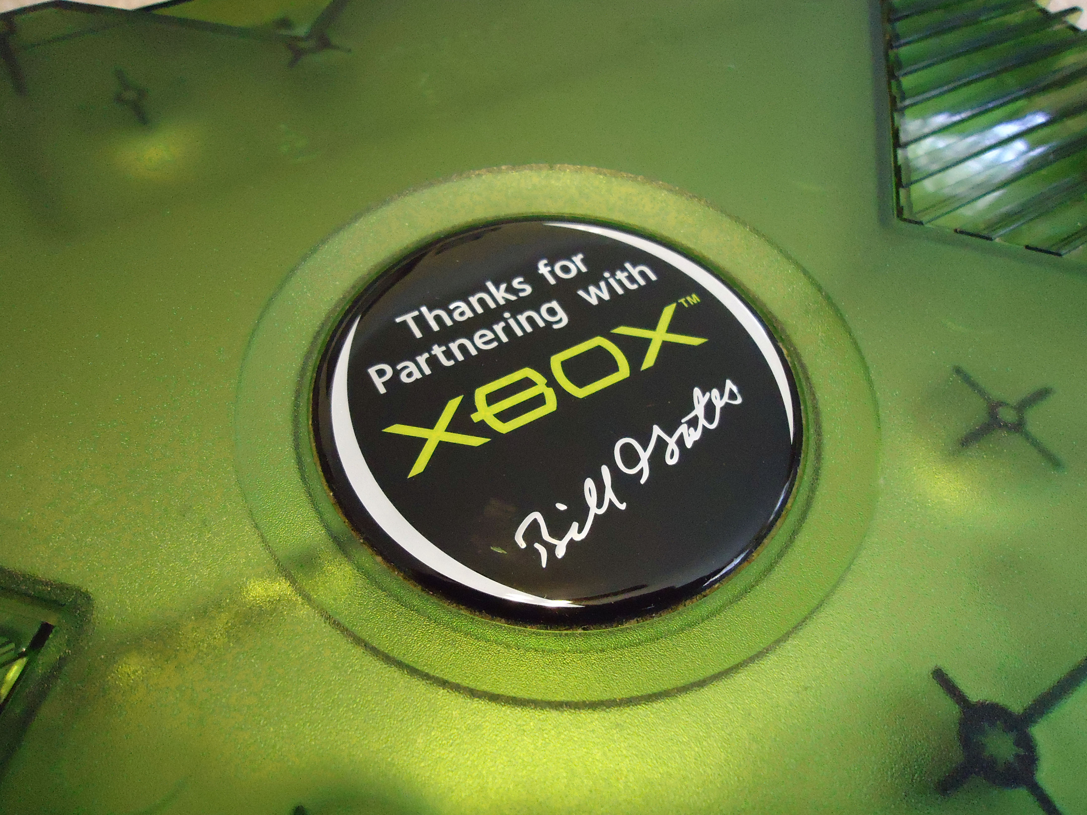 Photo courtesy of user MoonTar of